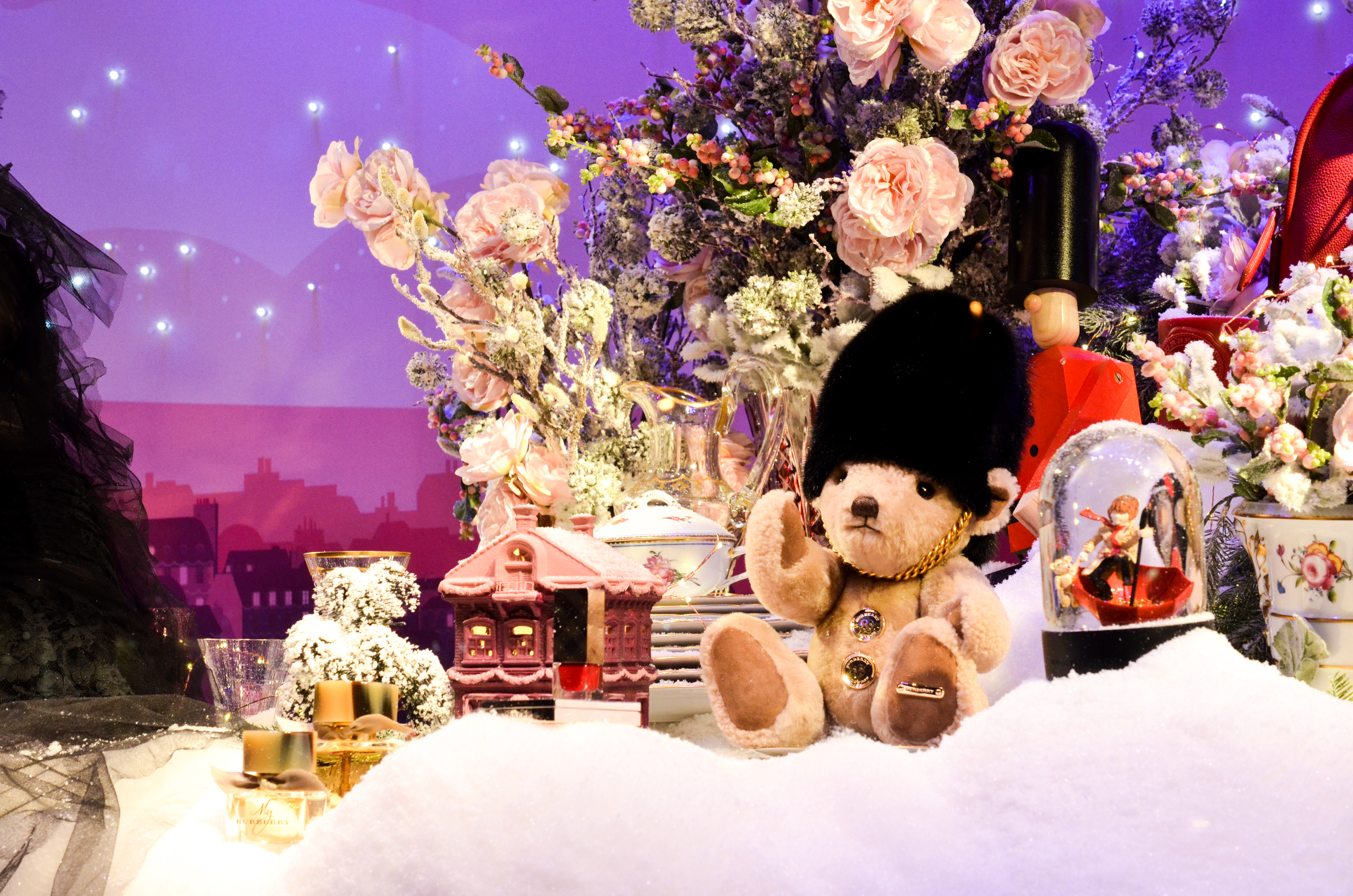 Christmas decoration, Galerie Lafayette, Paris.